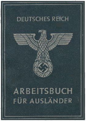 “Workbook for foreigner” - OST-Arbeiter main document for forced labourers from Eastern Europe in the Third Reich